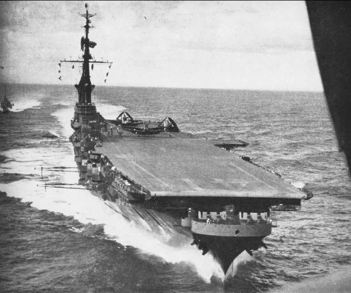 Photo of the newly commissioned U.S. Navy aircraft carrier USS Midway (CVB-41) during its shakedown cruise in the Caribbean Sea, in early 1946.